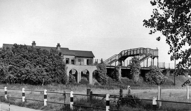 Bramford Station (remains). View eastwards across ex-GER Ipswich (right) - Norwich (left) main line. This station was closed 2/5/55, but seems remarkably well preserved eight years later - probably privately occupied.